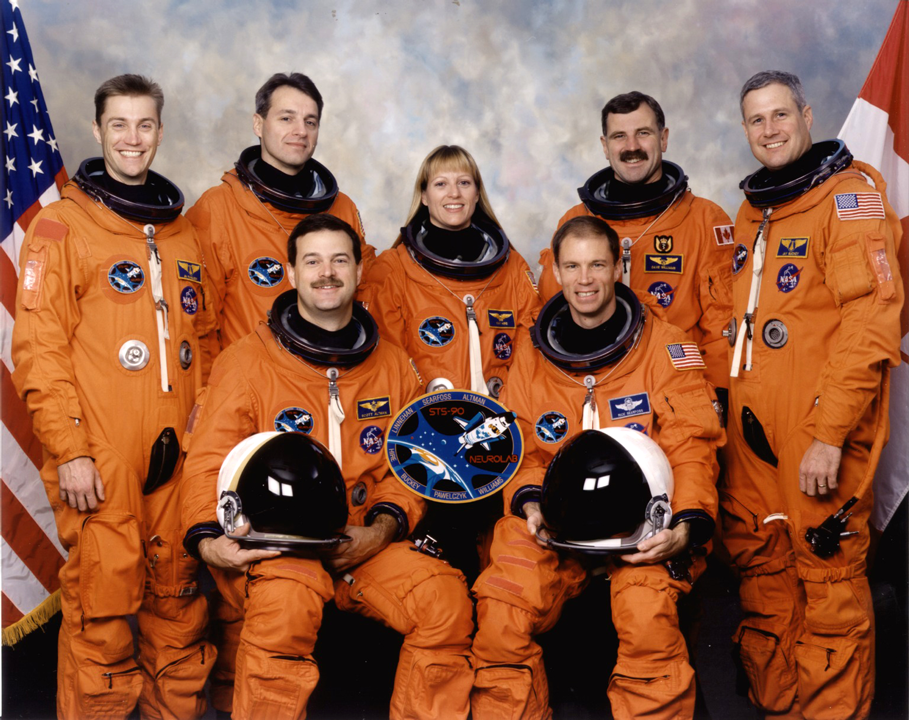 Five astronauts and two payload specialists take a break in training for the Neurolab mission to pause for a crew portrait. The Spacelab mission was conducted aboard the Space Shuttle Columbia on STS-90 which launched on April 17, 1998. Astronauts Richard A. Searfoss, commander (right front); and Scott D. Altman, pilot (left front). Other crew members (back row, left to right) are James A. (Jim) Pawelczyk, Ph.D., payload specialist; and astronauts Richard M. Linnehan, Kathryn P. Hire, and Dafydd R. (Dave) Williams, all mission specialists; along with payload specialist Jay C. Buckey, Jr., MD. Linnehan and Williams, alumnus of the 1995 class of astronaut candidates (ASCAN), represents the Canadian Space Agency (CSA).